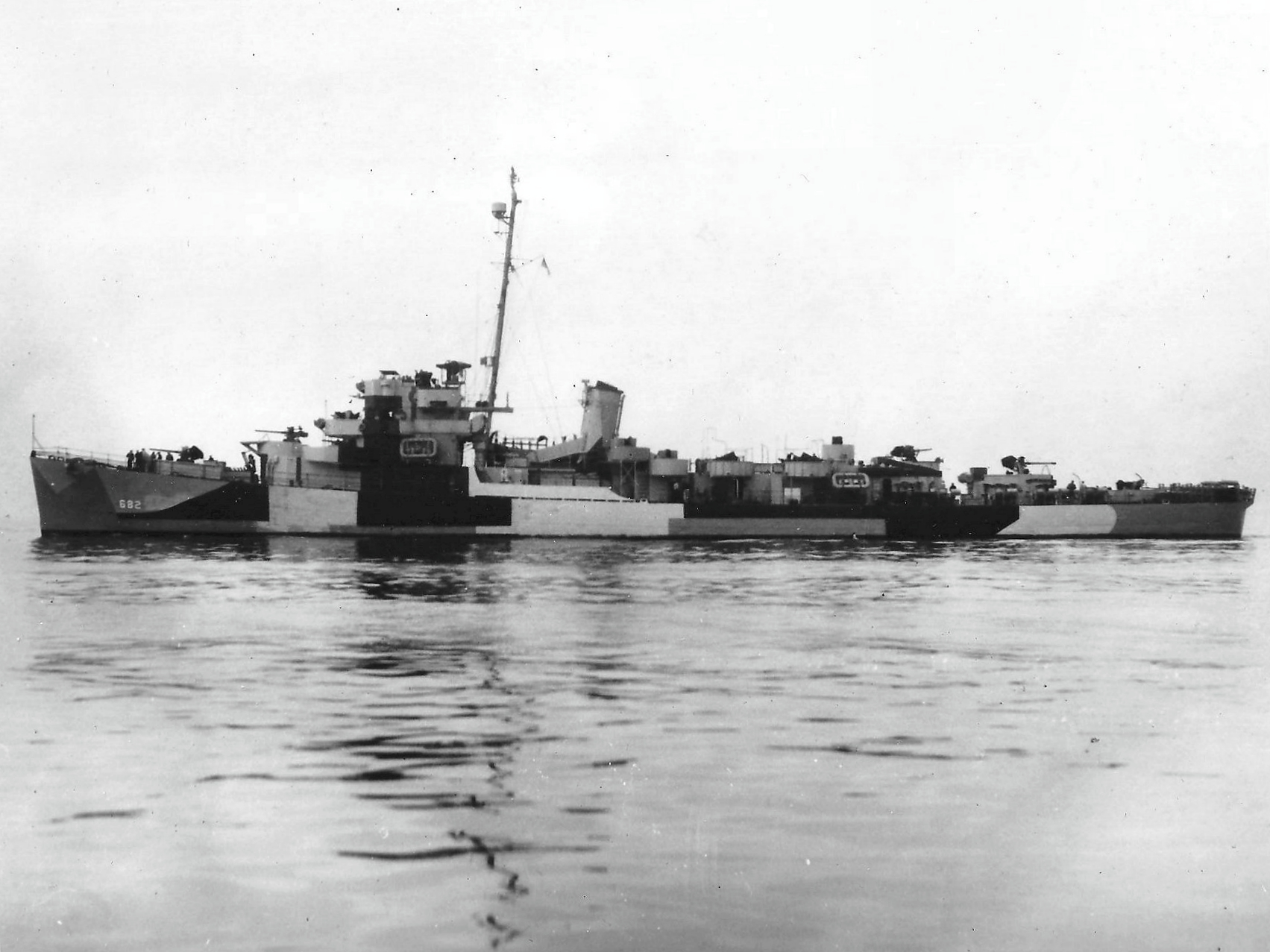 The U.S. Navy destryer escort USS Underhill (DE-682) underway, circa in 1945.